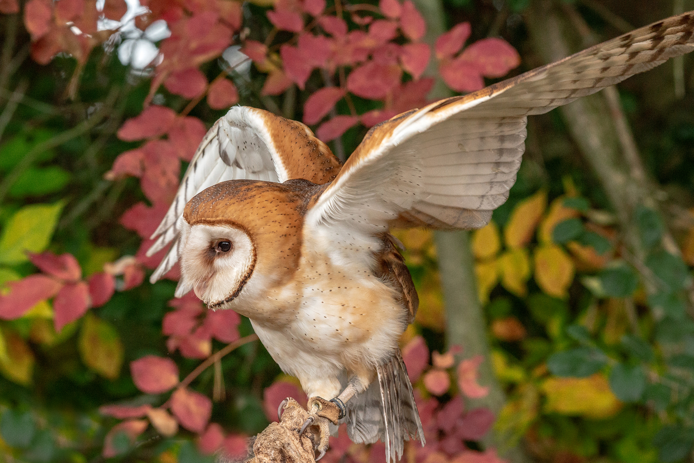 Barn Owl at a falconry centre